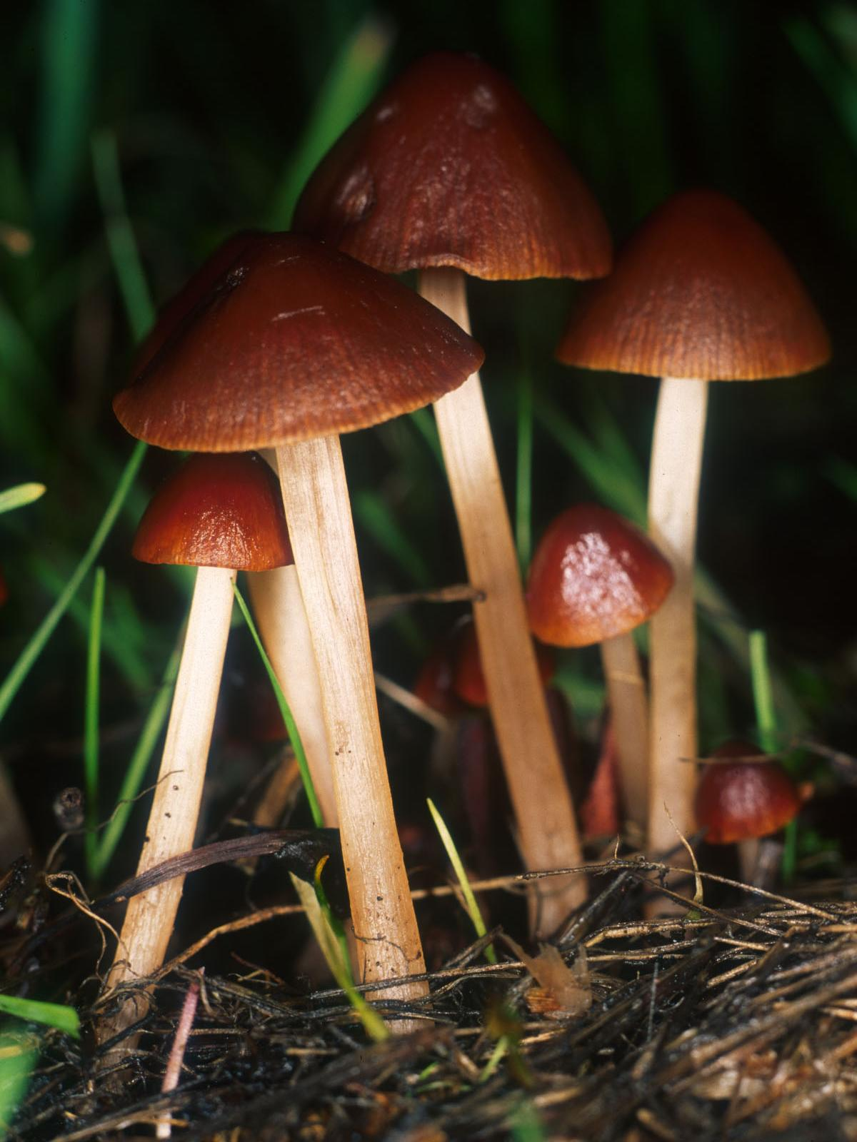 Conocybe tenera. Photo by Nathan Wilson. Found on the Stanford campus in Palo Alto, California. Collected with Gregg Ferguson for the 1995 Santa Cruz Fungus Fair. Identified based on the key in Arora’s Mushrooms Demystified, 2nd Ed.